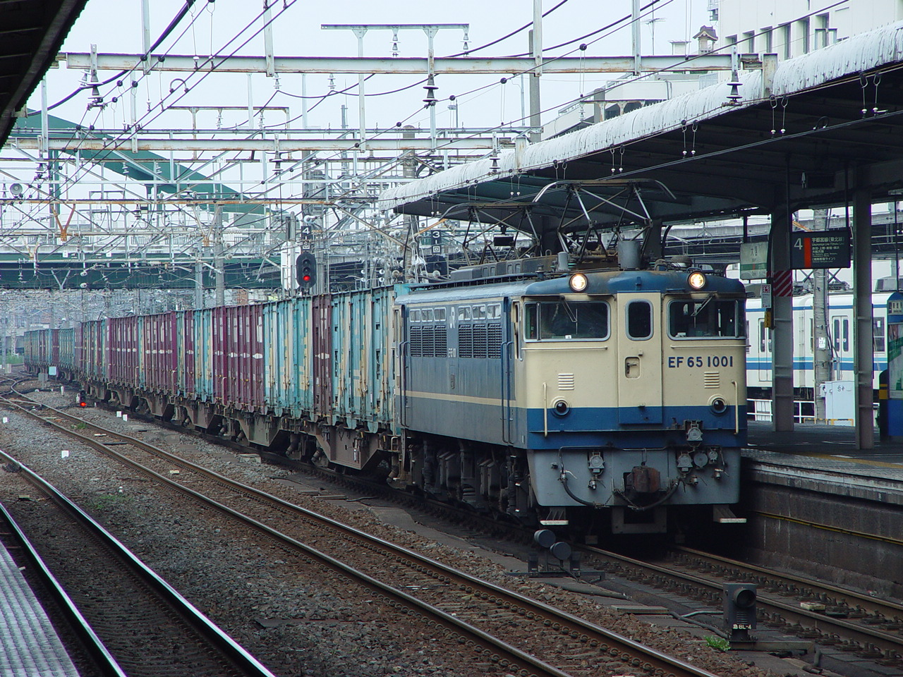 JR Freight Class EF65-1000 electric locomotive EF65 1001 passing through Omiya Station on a freight service